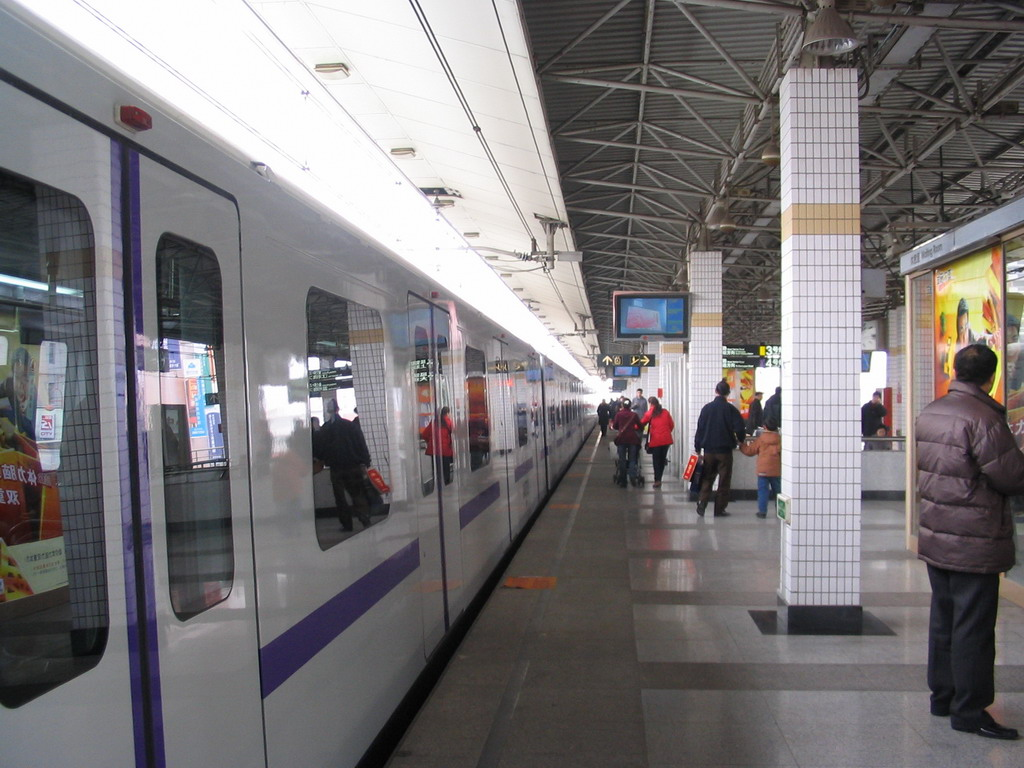 中山公園站-3/4號線月台-4號線列車 Line 4 Train at Line 3/4 Platform of Zhongshan Park Station